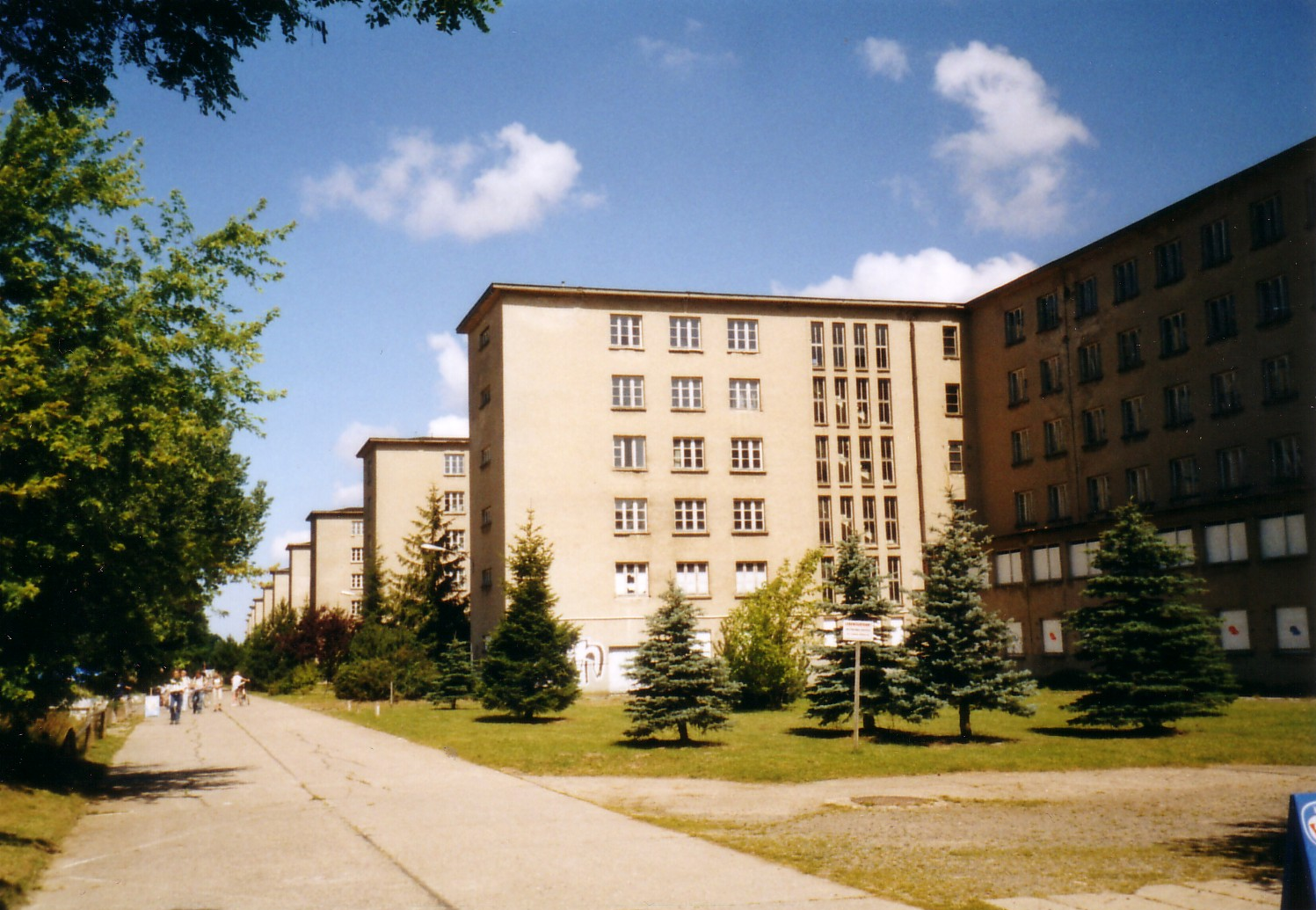 Prora - view from landside